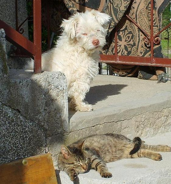 Two of the most common home animals (pets).